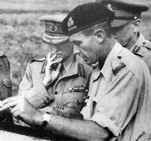 Field Marshal J C Smuts (Prime Minister), Maj-Gen WH Evered Poole (GOC 6th SA Armoured Division) and Lt-Gen Sir Pierre van Ryneveld (SA Chief of Staff), in Italy, 24 June 1944. The visit was to discuss the implications of the surrender of A Coy, First City/Cape Town Highlanders (which later became known as "the CHIUSI affair")